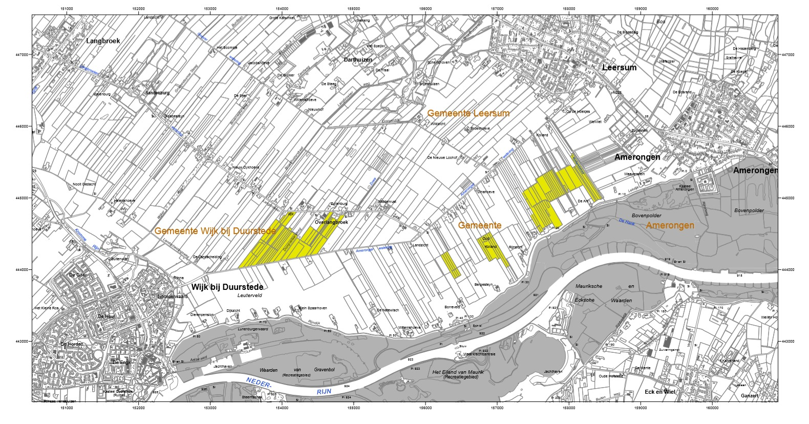 Detailed map of Kolland and Overlangbroek